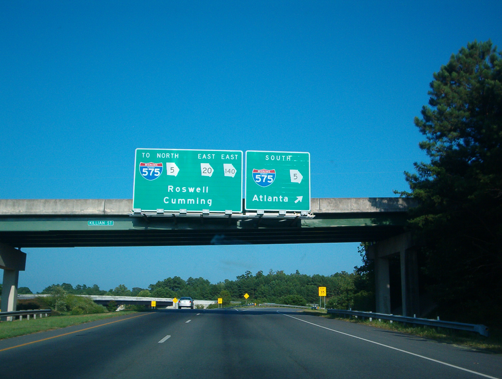 Overhead signage for Georgia State Routes 20 and 140 at I-575 in Canton.